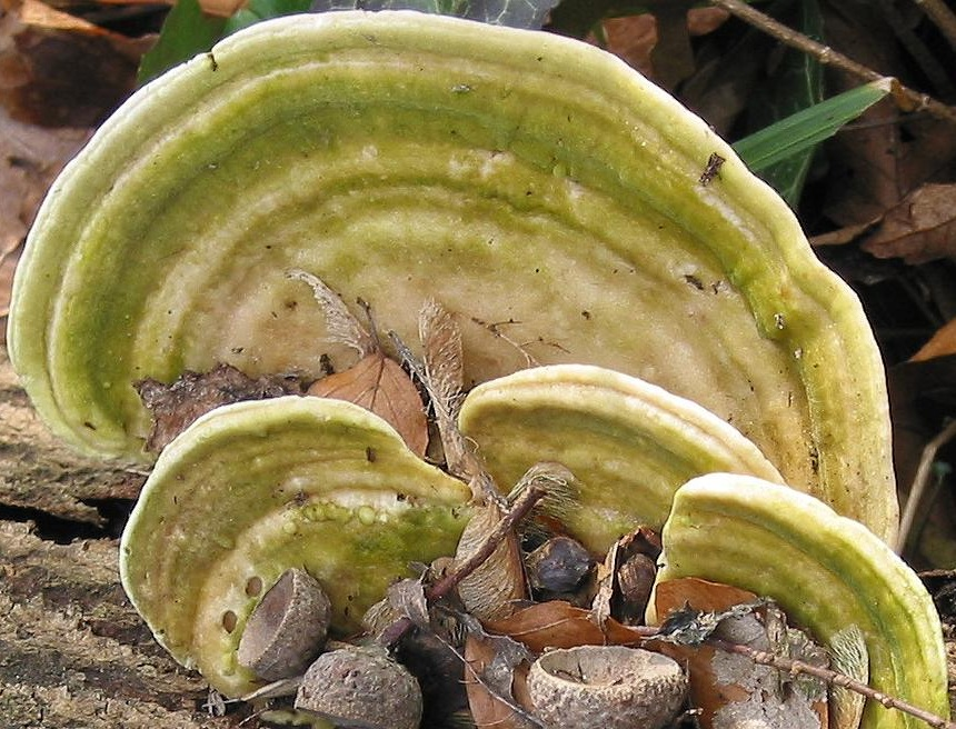 fungi